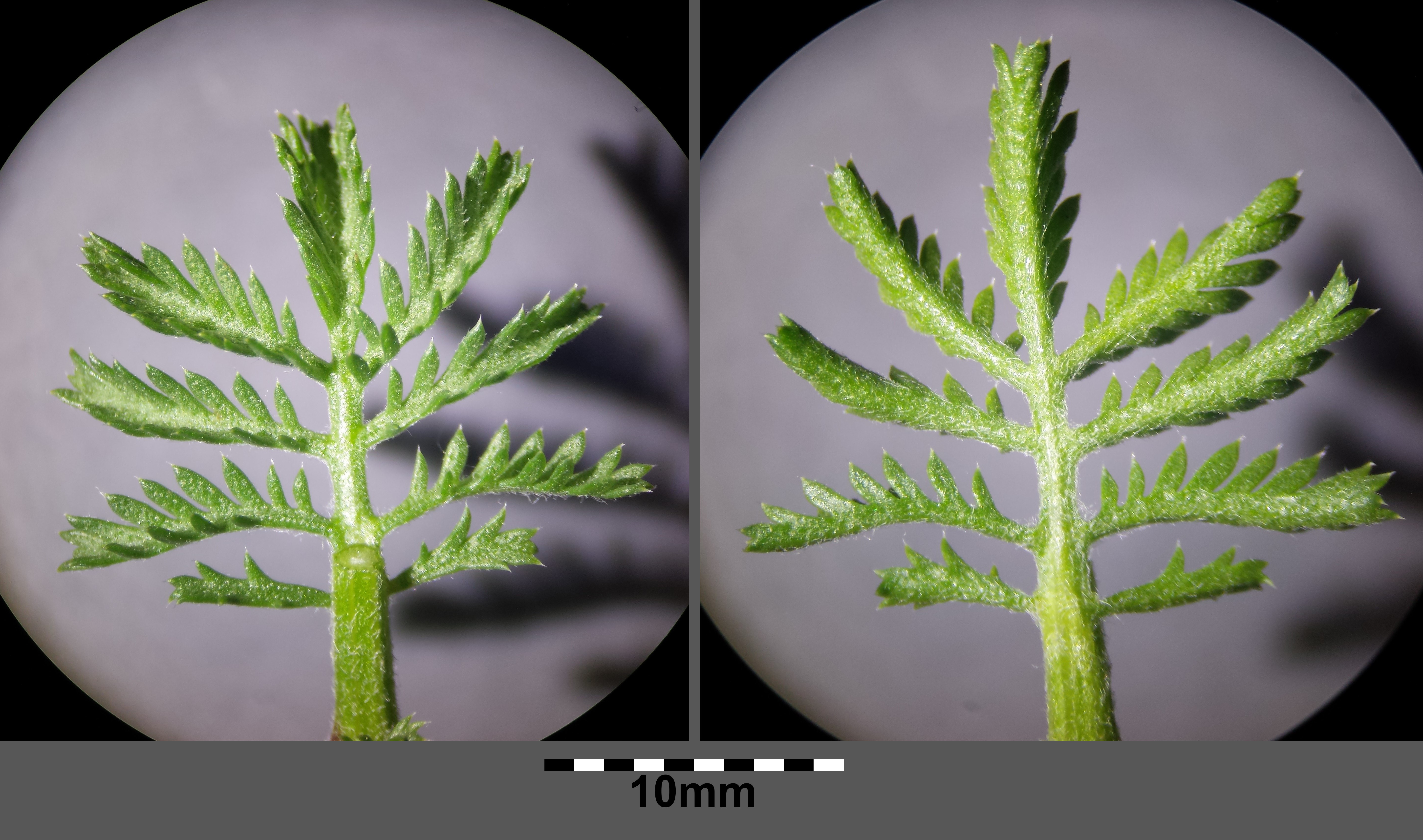 Leaf (top and bottom side) Taxonym: Anthemis austriaca ss Fischer et al. EfÖLS 2008 ISBN 978-3-85474-187-9 Location: near Steinberg near Niederhollabrunn, district Korneuburg, Lower Austria - ca. 300 m a.s.l. Habitat: border of a field